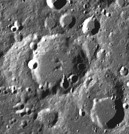 Crater Zsigmondy - center of the image, crater Omar Khayyam - lower right